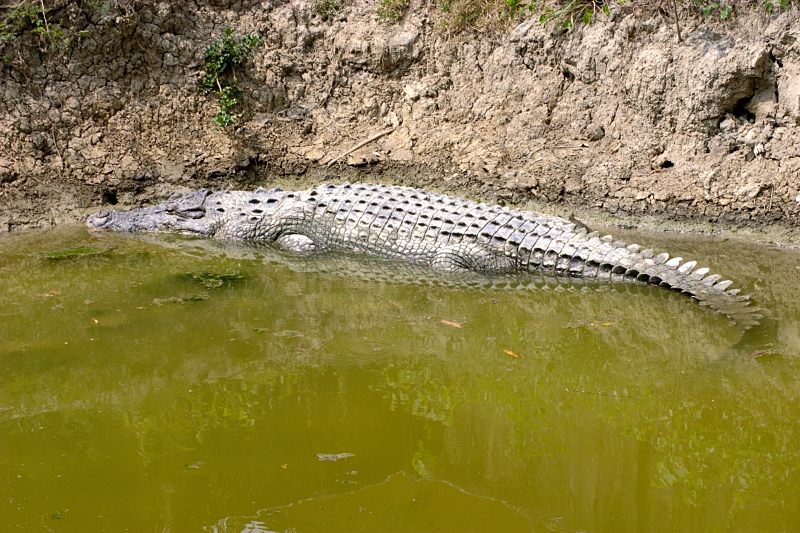 Big Croc at Sundarban Crocodile Breeding Centerbig_croc